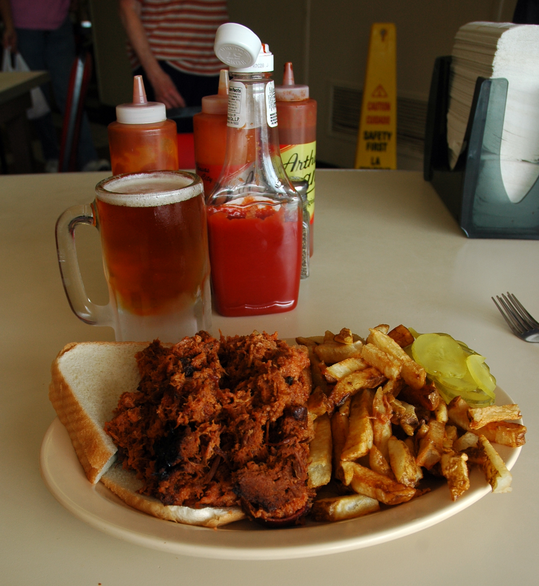 Pulled Pork at Arthur Bryant's in Kansas City, Missouri. [" Read my review, here].